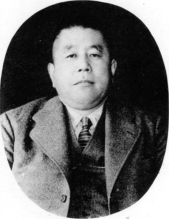 Fukuzawa Komakichi